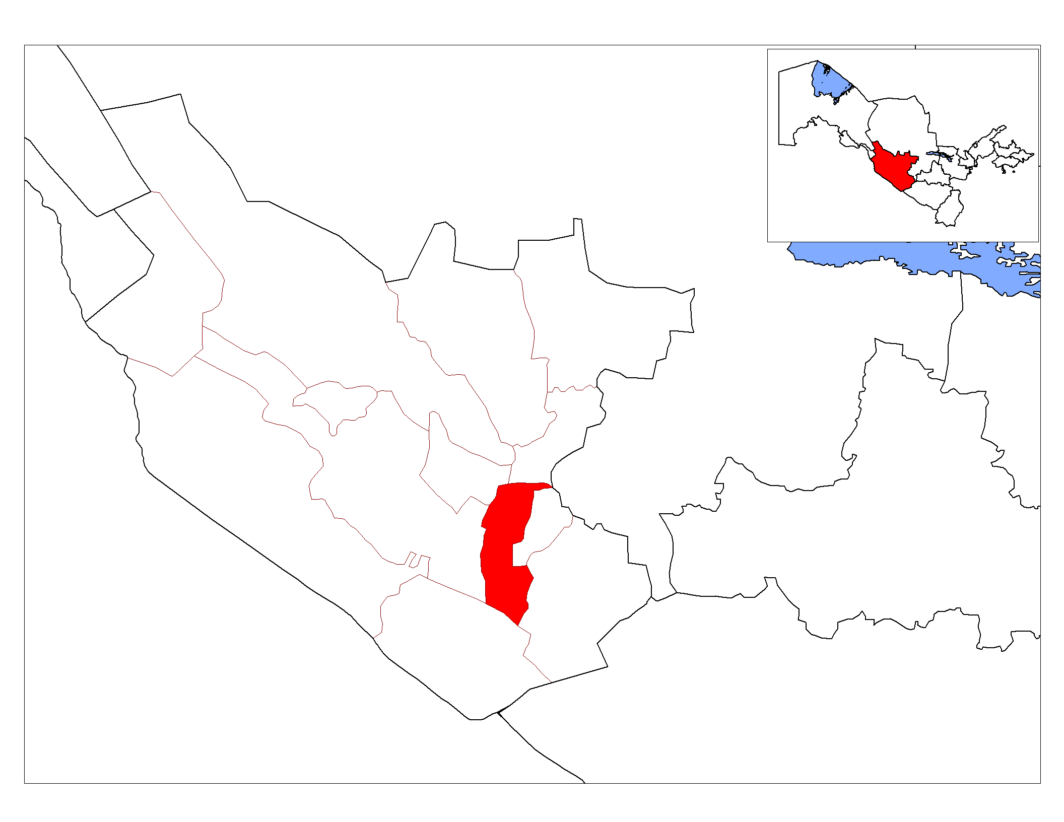 Location map of Buxoro District in Buxoro Province, Uzbekistan